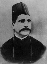 Depicted person: Muhammad Iqbal – Urdu poet and leader of the Pakistan Movement